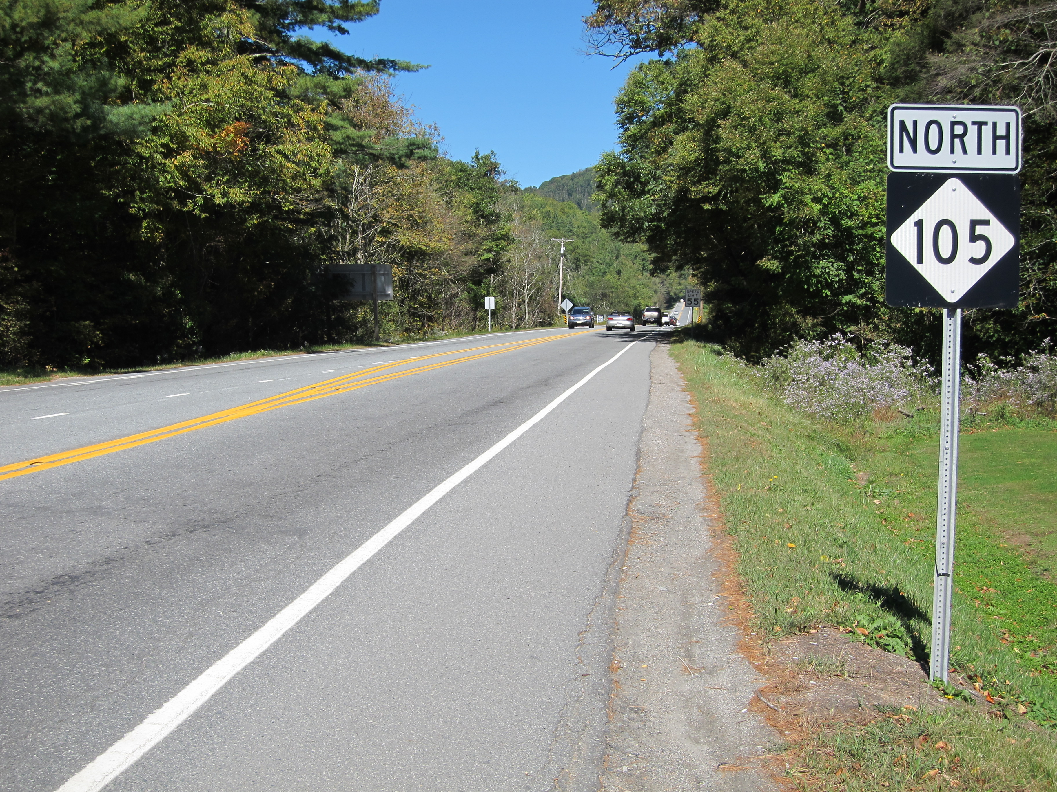 This is the first sign when drivers get onto NC 105 in Linville, North Carolina.